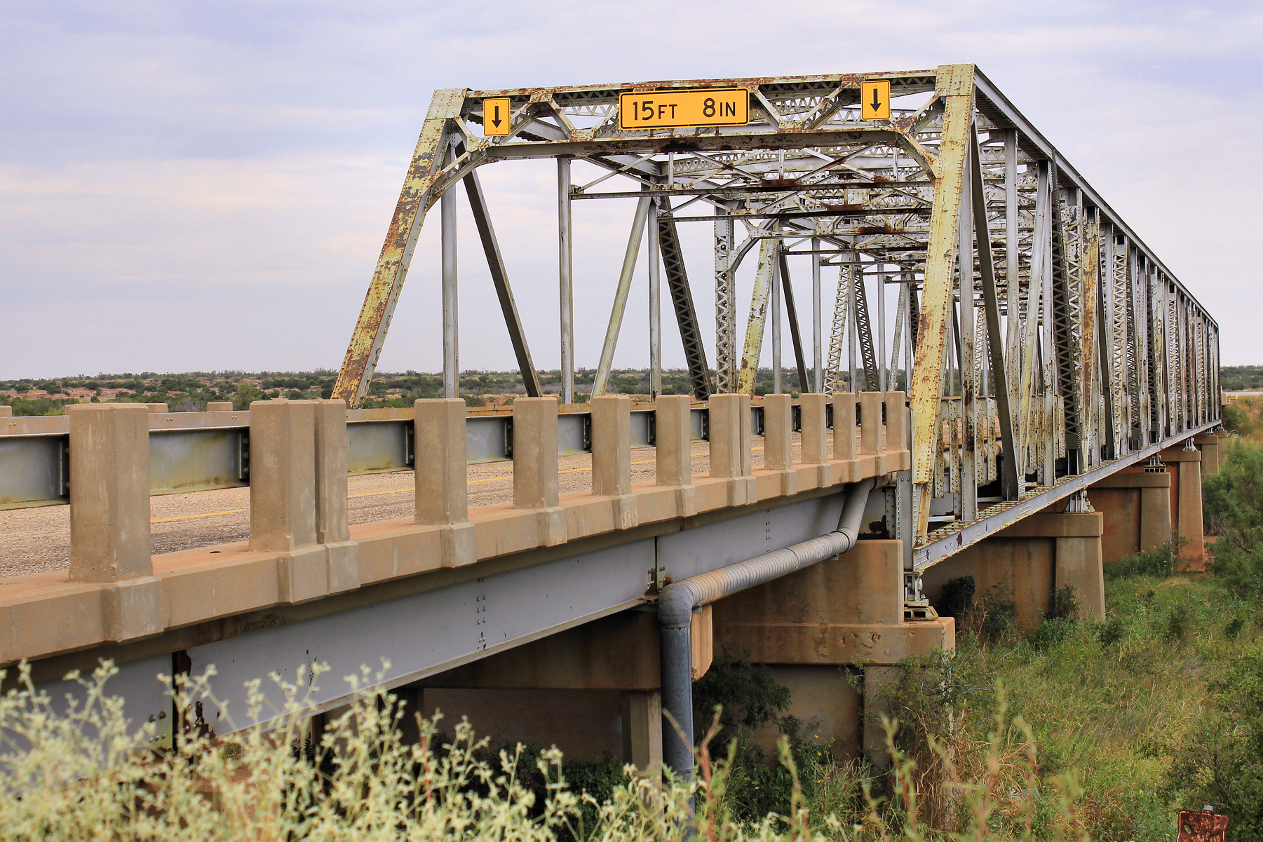 The State Highway 16 Bridge at the Brazos River. The Warren through truss bridge was built between 1938 and 1939. It was listed on the National Register of Historic Places on October 10, 1996 and designated a Recorded Texas Historic Landmark in 2015.